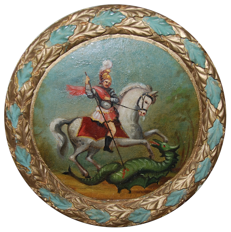 Photo of a painted representation of saint George and the dragon on the main altar in the church of Saint-Georges-en-Auge (Calvados, France).